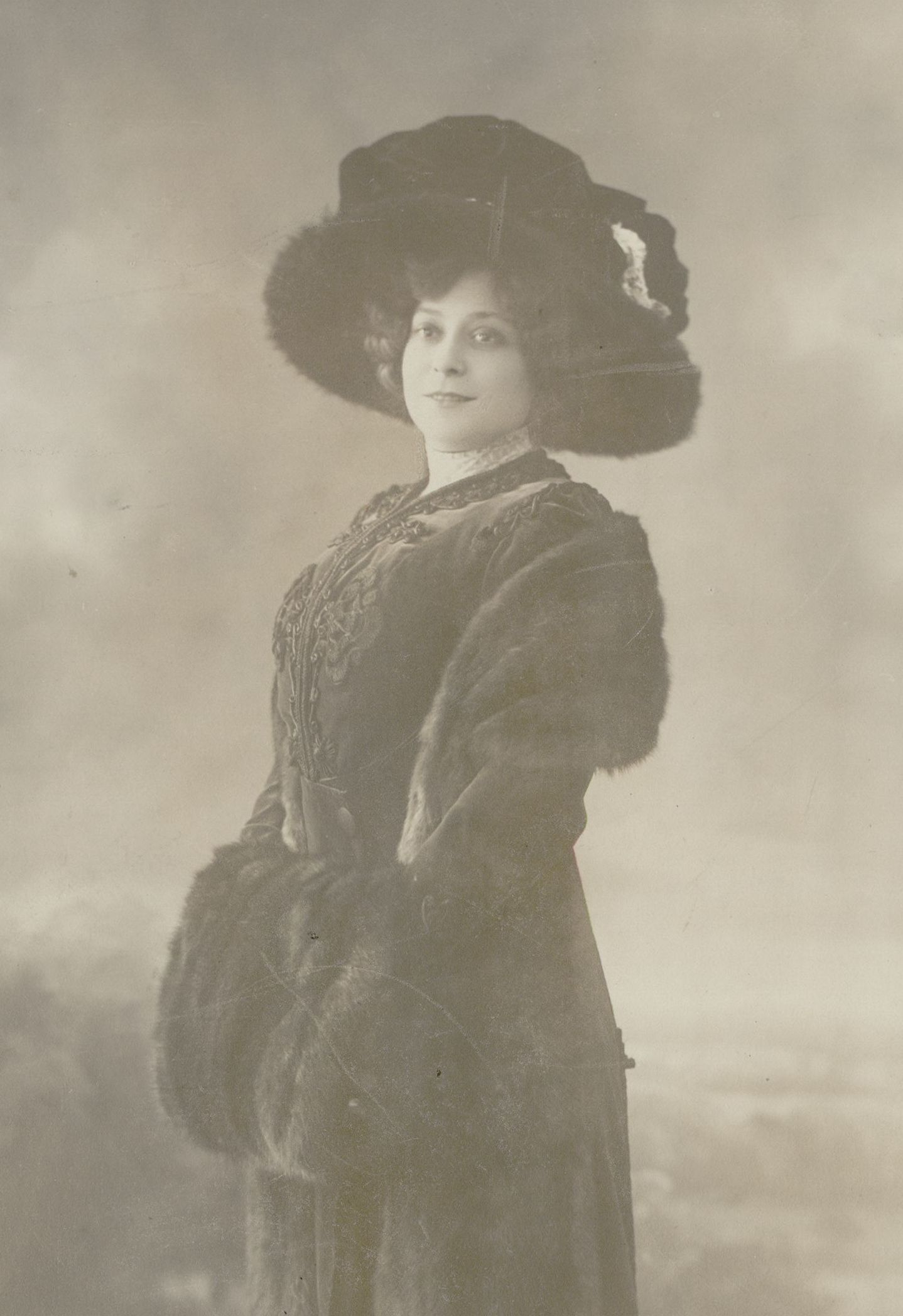 Belgian opera singer Mariette Sully (1874-1940).